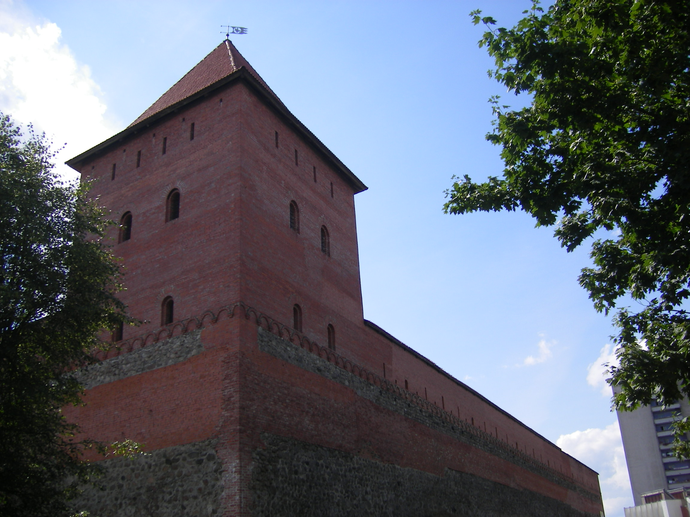 Castle of Lida (Zamok)